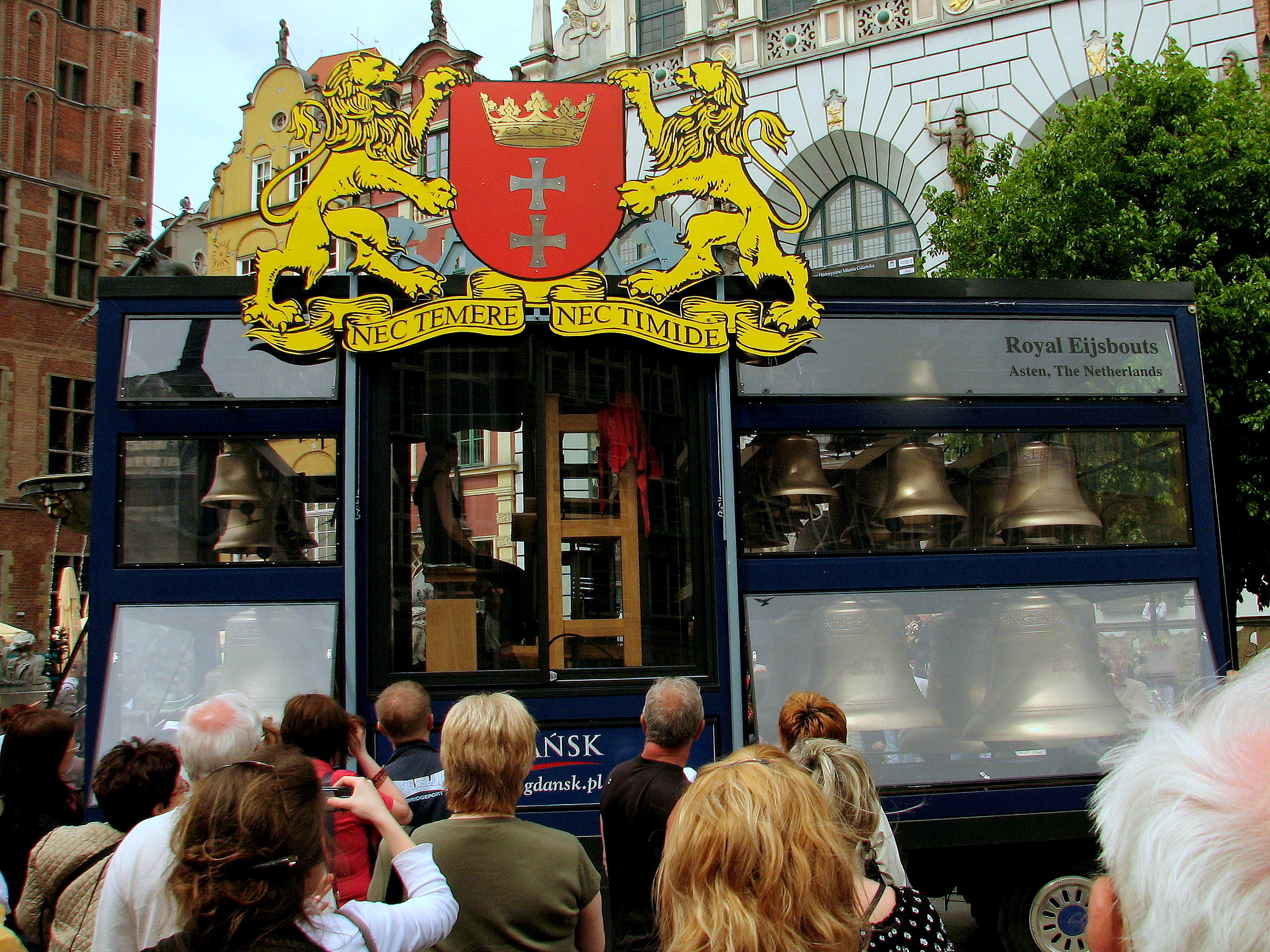 Mobile carillon concert with the accompaniment of the Polish Border Guard Orchestra during III World Gdańsk Reunion.